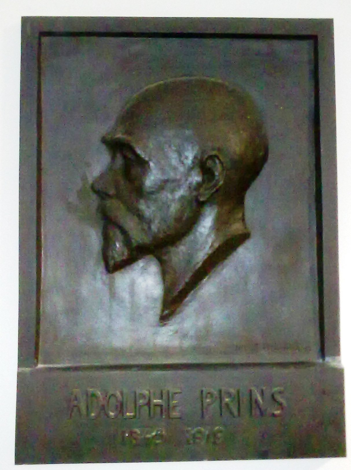 Adolphe Prins the lawyer (1845-1919) portrait in a bronze plate in the corridors of the former Law Faculty, Brussels Liberal University (ULB)